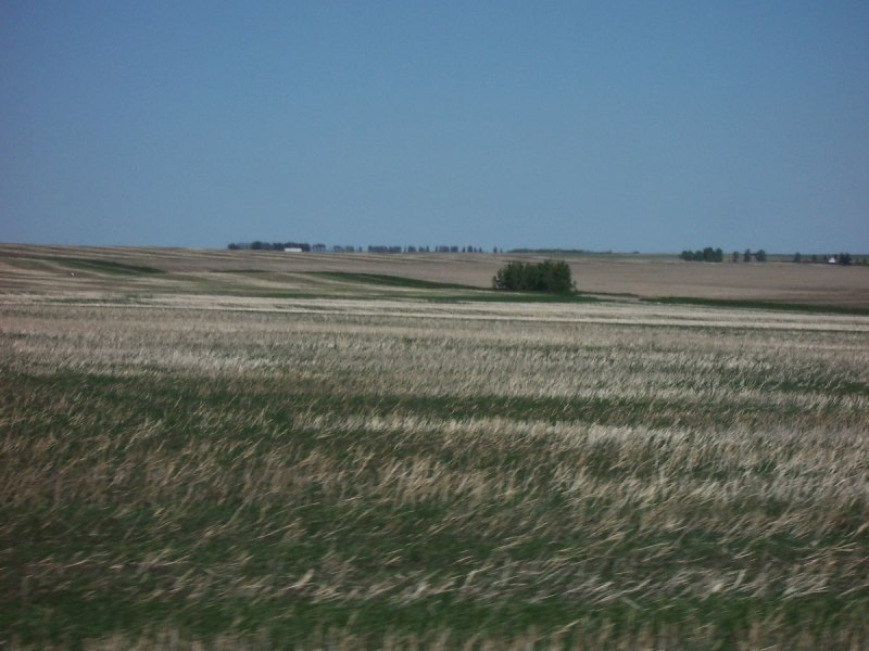 Prairie in Alberta, Canada (somewhere between Calgary and Edmonton?)